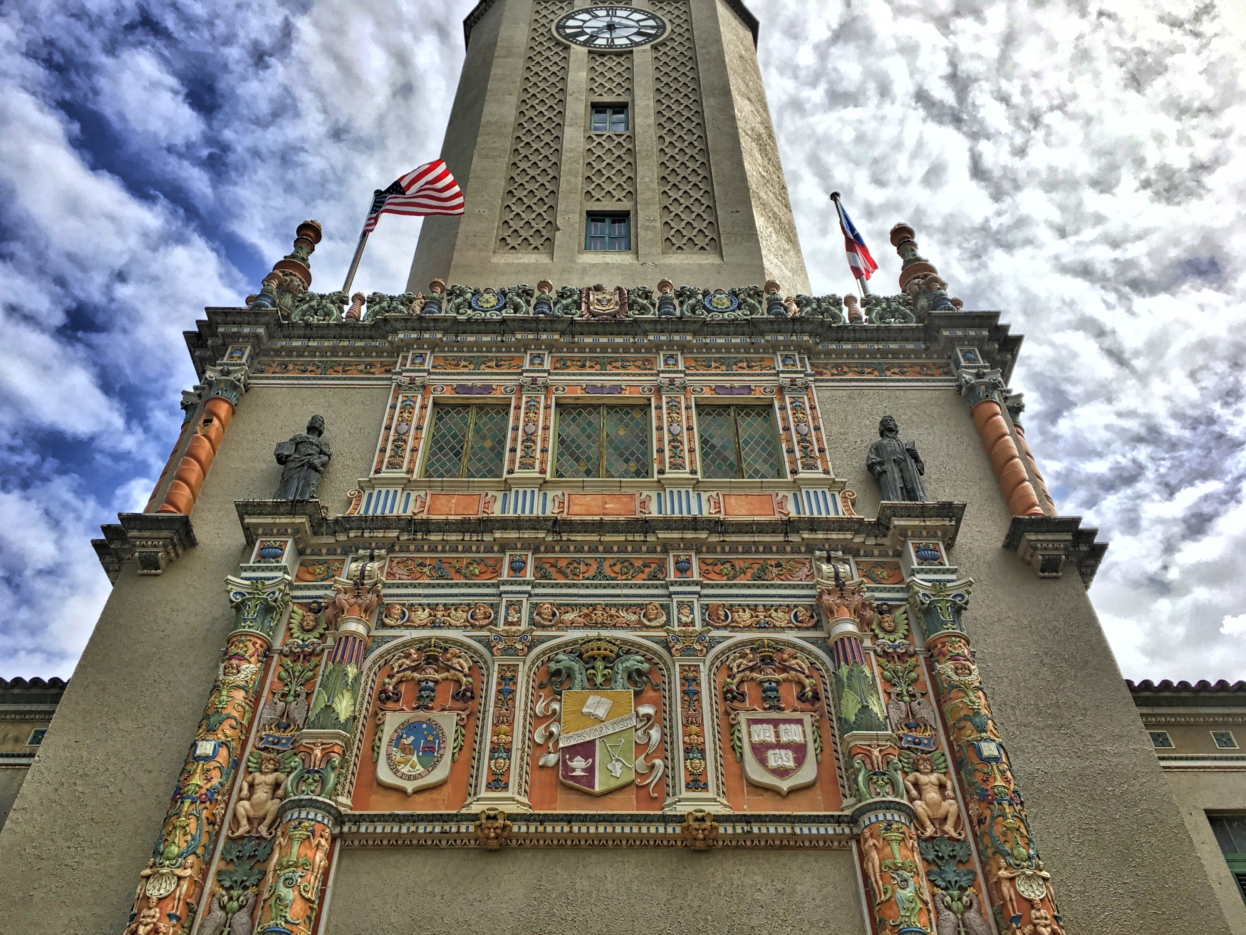 Coat of arms of the National University of San Marcos (left), the University of Puerto Rico (center) and Harvard University (right). In the horizontal body above the door, pilasters with fine grotesques divide a rectangular field into three areas that accommodate shields under arcs of three centers: the shield of the University of San Marcos of Peru on the left, in the center a shield representing the UPR, and to the right, the shield of Harvard University. The National University of San Marcos established in Lima, Peru in 1551, by "royal charter" of Carlos V King of Spain, is the oldest University of the Americas. Harvard, founded in 1636, is the oldest university in the United States. They represent the oldest universities in North and South America, of which the UPR aspired to inherit its centuries-old educational tradition.